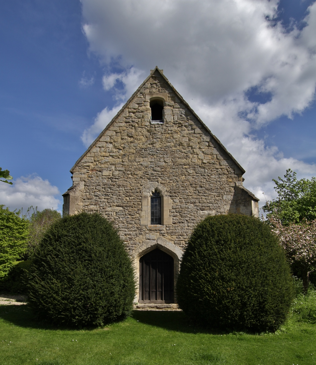 Bartlemas chapel, Oxford, seen from the west